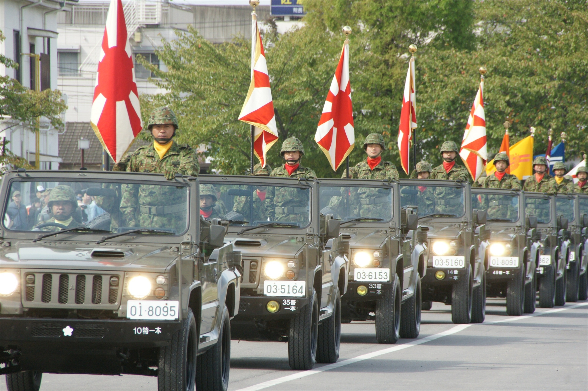 Title １０Ｄ：車両部隊による観閲行進_R.JPG Album Events and Public Relations (イベント・行事・広報活動等) 車両部隊による観閲行進。歩兵連隊の大佐。2011年当時の第10師団隷下連隊の各自衛隊旗と連隊長。手前より第10特科連隊、第35普通科連隊、第33普通科連隊、第14普通科連隊、第49普通科連隊 日自衛隊 2011年。